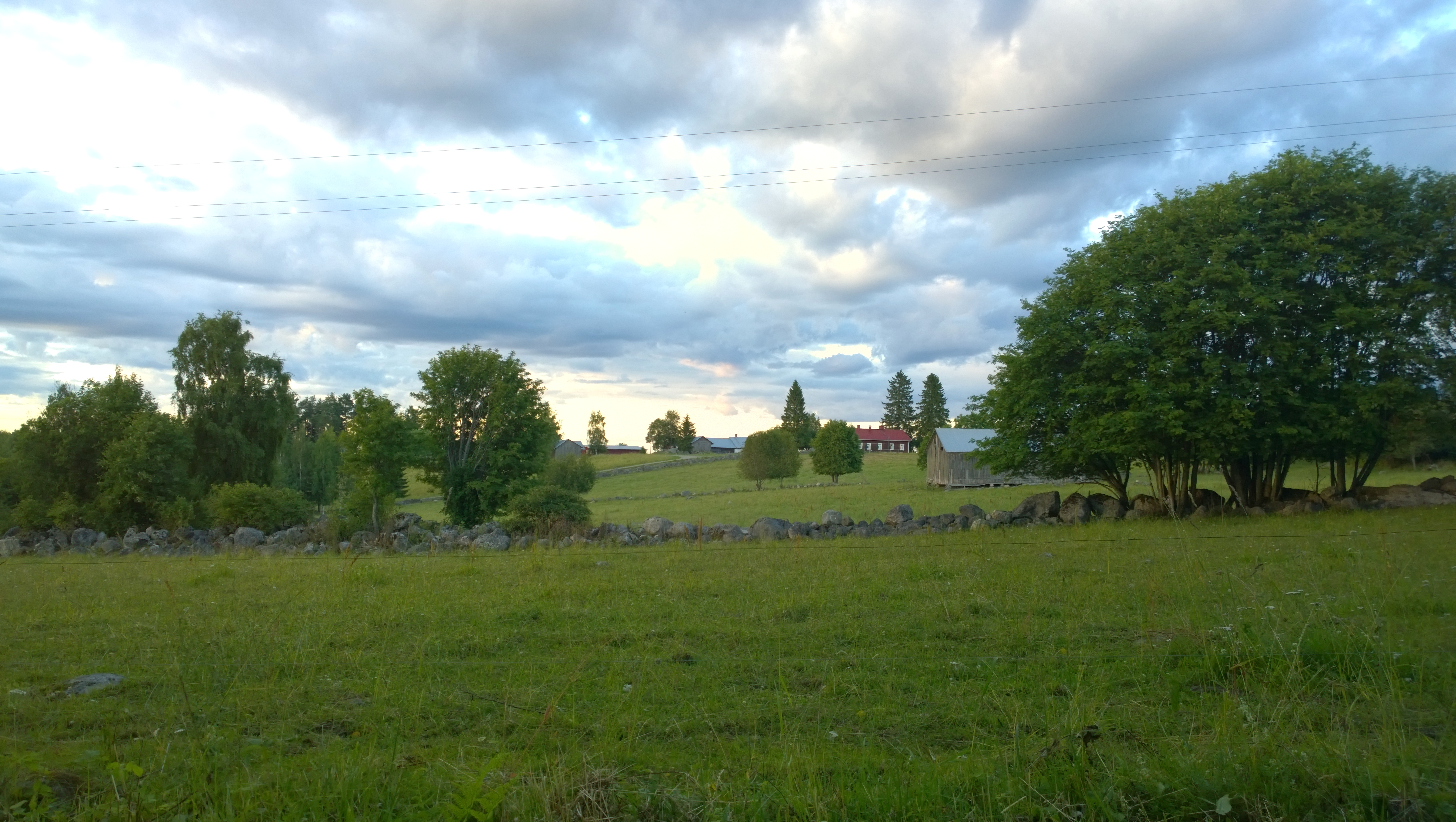 Open pasture with stone fences, rowan and birch trees. Old style houses in the background.